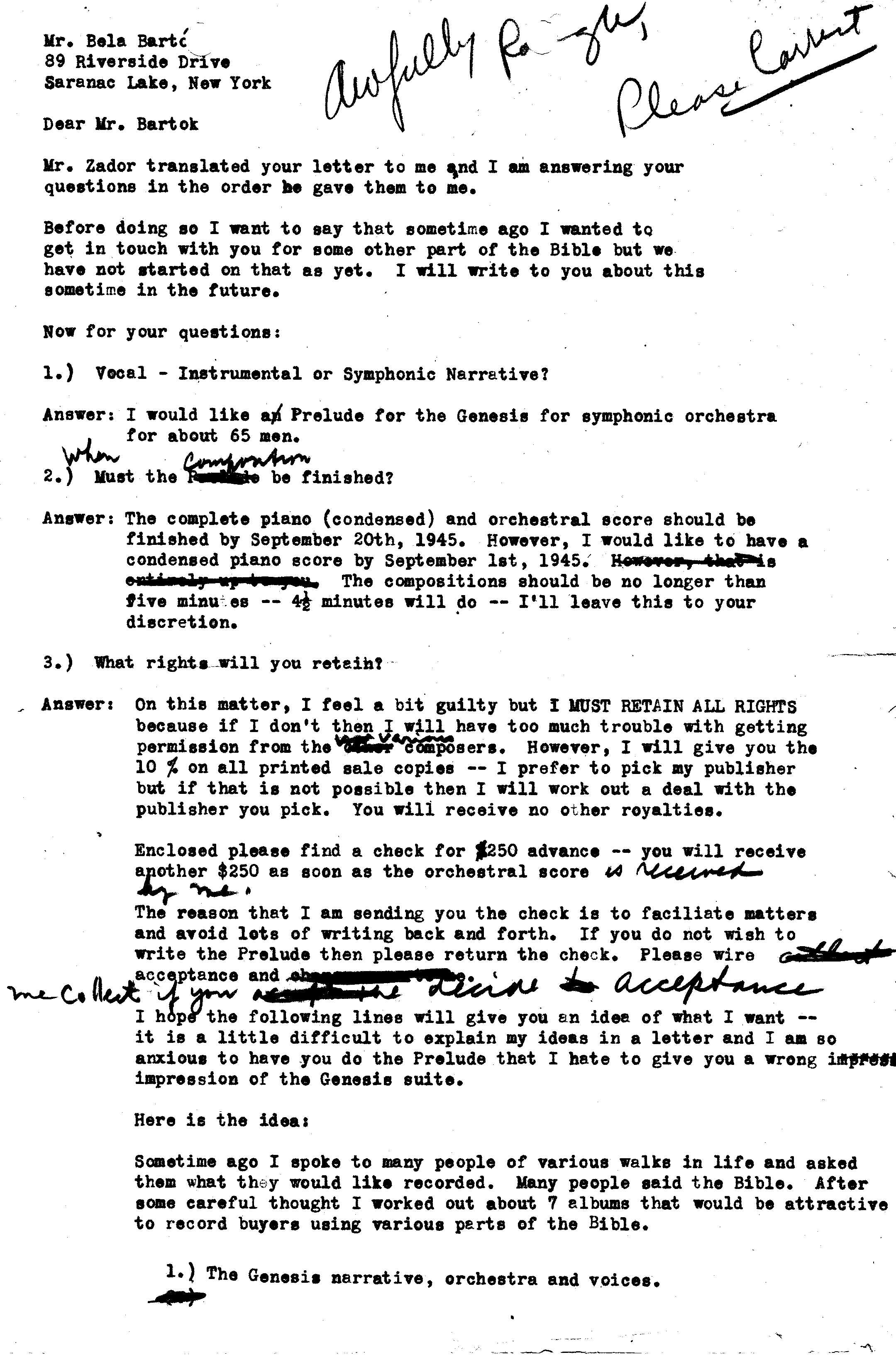 Draft of letter from Nathaniel Shilkret to Bela Bartok, page 1